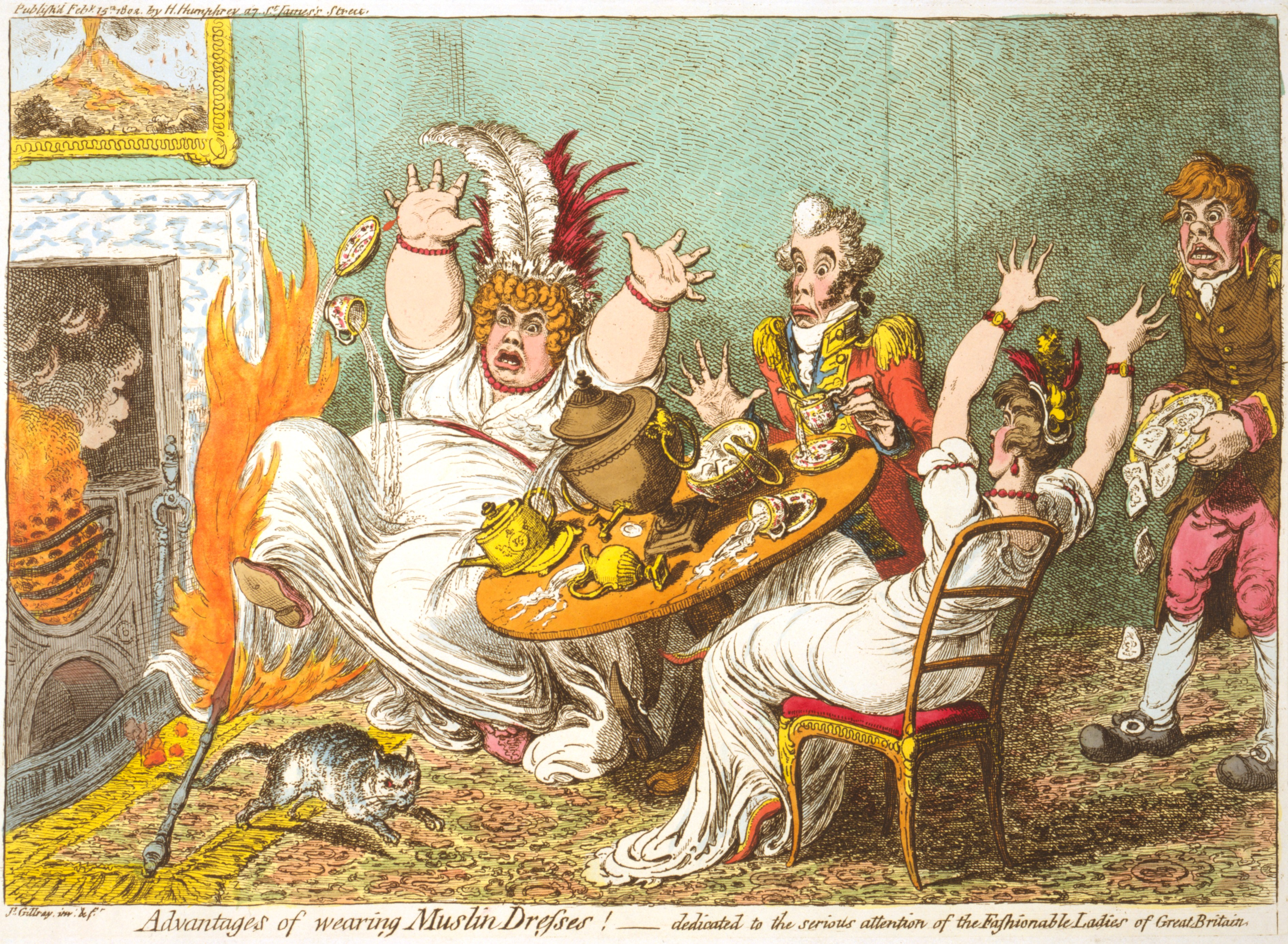 Advantages of wearing Muslin Dresses ! — dedicated to the serious attention of the Fashionable Ladies of Great Britain Js. Gillray, inv: & ft. SUMMARY: A fat lady, sitting with a man and woman at a tea table, reacts in horror as a hot poker from the fire falls on her dress and sets it on fire. The man sits helplessly while the second woman upsets the table in her alarm. A butler, entering the room, drops a plate of muffins, and a cat scampers away from the fire. A painting of Mt. Vesuvius hangs over the fireplace. MEDIUM: 1 print: etching, hand-colored. CREATED/PUBLISHED: [London] : H. Humphrey, 1802 Feby 15th. According to Wright & Evans, Historical and Descriptive Account of the Caricatures of James Gillray (1851, OCLC 59510372), p. 466, "Muslin dresses had become very fashionable at the period when this caricature was published, and several disastrous results of accidental ignition gave to this print a peculiar air of truthfulness. It may be that those interested in the print trade encouraged the production of what was likely to remove prestige from its rival."